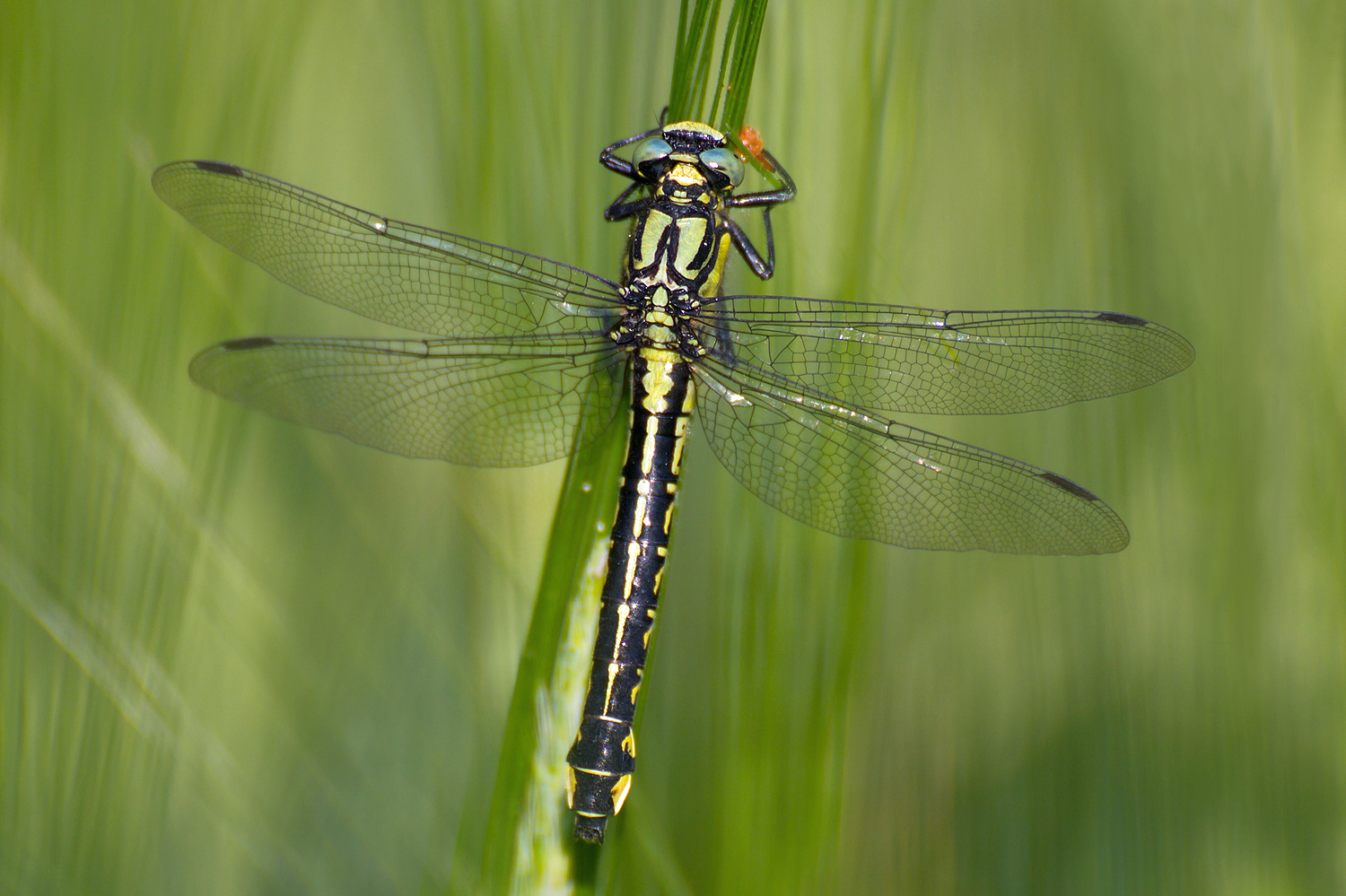 Female Common Club-tail (Gomphus vulgatissimus) eating an insect. The specimen is sitting in a barley field.